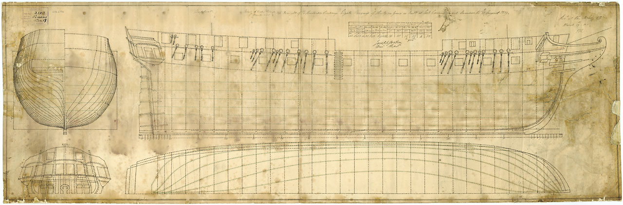 PENANG 1809 lines & profile NMM, Progress Book, volume 6, folio 431, states that 'Penang' arrived at Woolwich Dockyard on 16 August 1810, docked on 17 August, and sailed in October 1810. The Progress Book does not record when the name was changed to 'Malacca', or when she was launched at Prince of Wales Island (Penang).